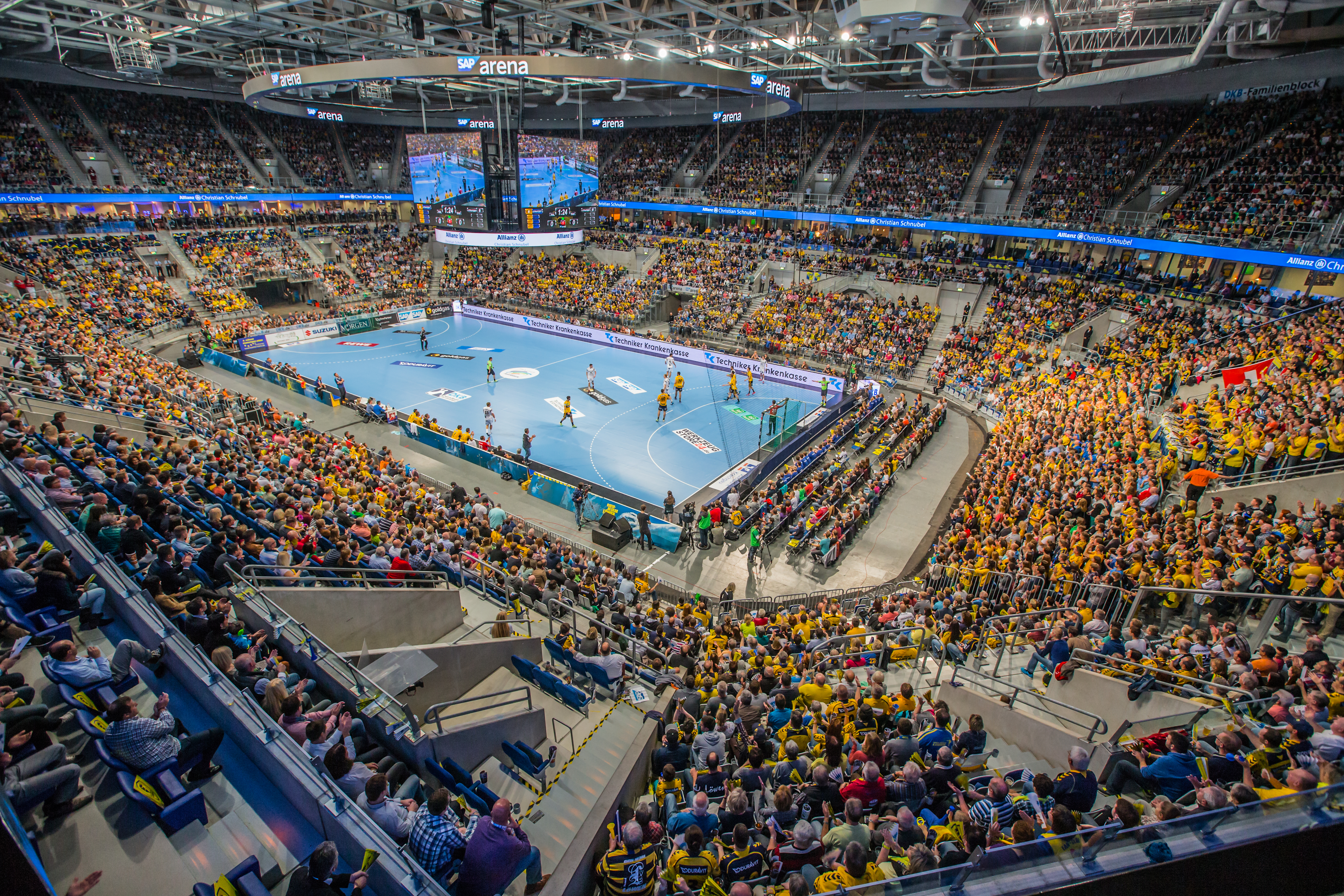 RNL vs. THW, RNL Saison 2014 / 2015,© Copyright: AS Sportfoto / Sörli Binder,www. as-sportfoto.de, SOA_2510_RNLS.Binder Hauptstr. 143 69168 Wiesloch, / ,Steuernummer 32035/38579 Finanzamt Heidelberg